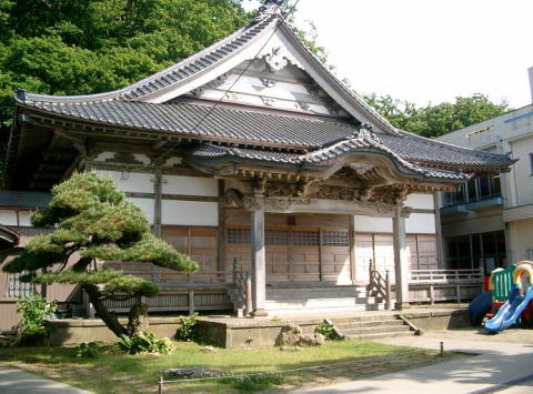 Main hall of Houfukuji, Nagaoka, Niigata Prefecture, Japan